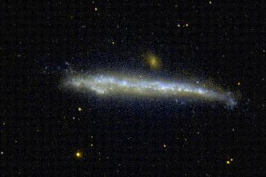 An ultraviolet image of NGC 4631 taken with GALEX. Credit: GALEX/NASA.